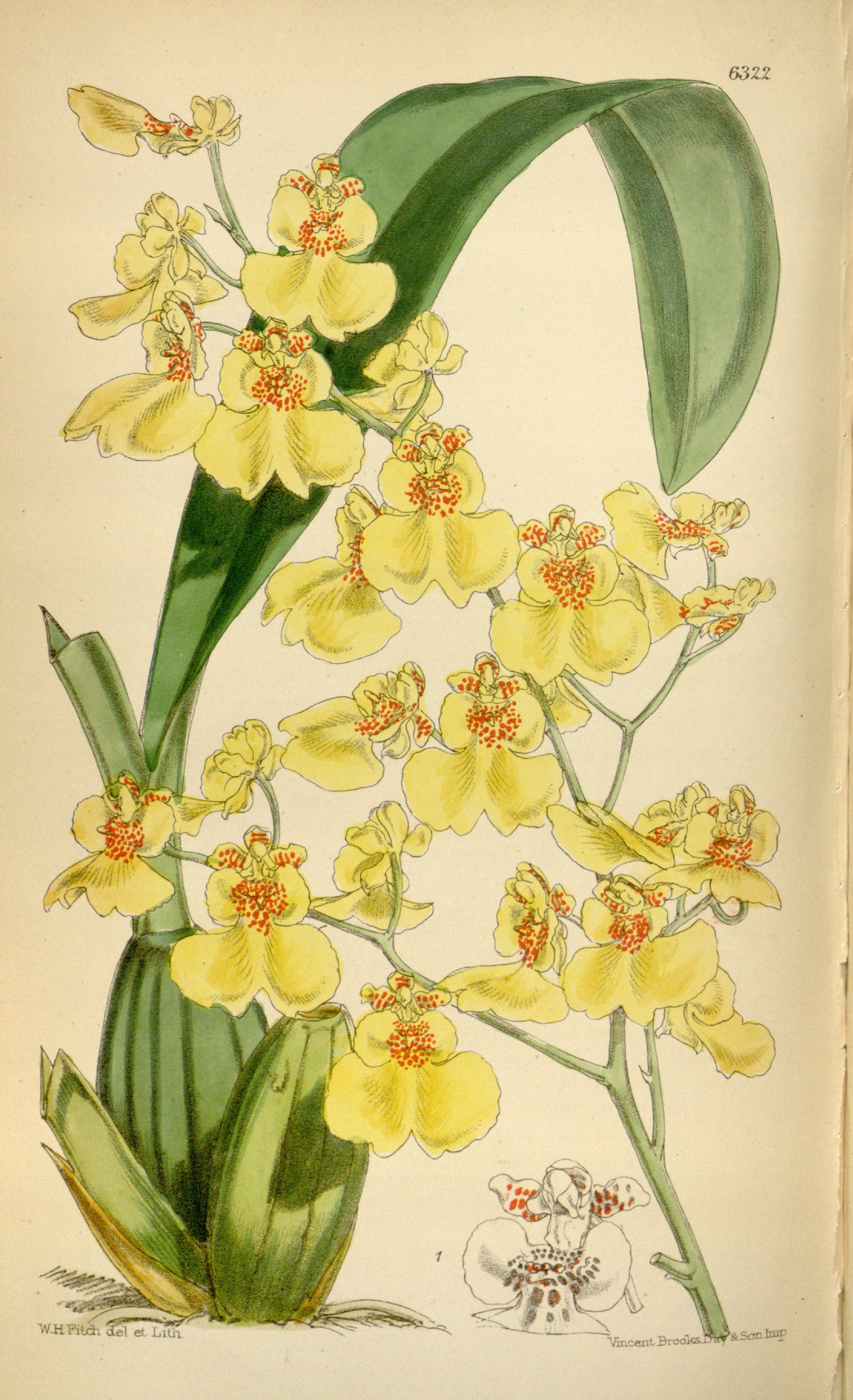 Illustration of Oncidium varicosum (as syn. Oncidium euxanthinum)